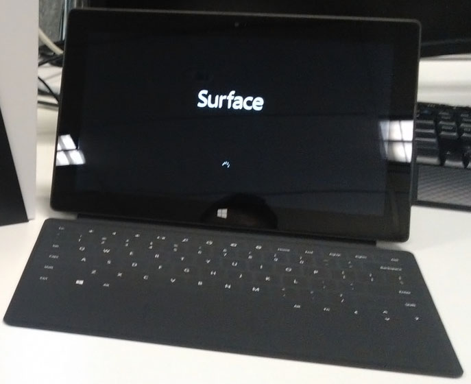 Photo of a Microsoft Surface tablet computer